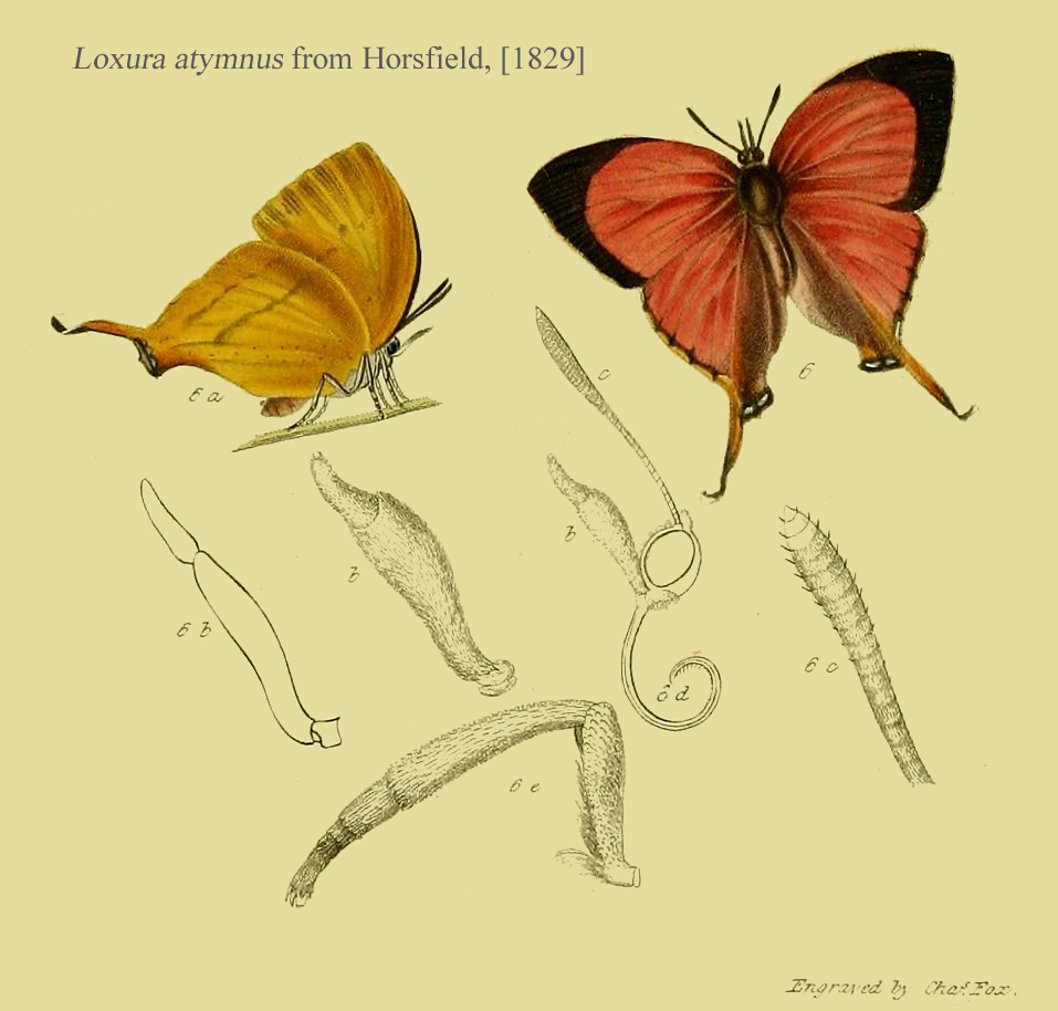 Loxura atymnus, (Stoll), adult, with palpus, antenna, proboscis and leg, from Horsfield's description of the new Genus Loxura.